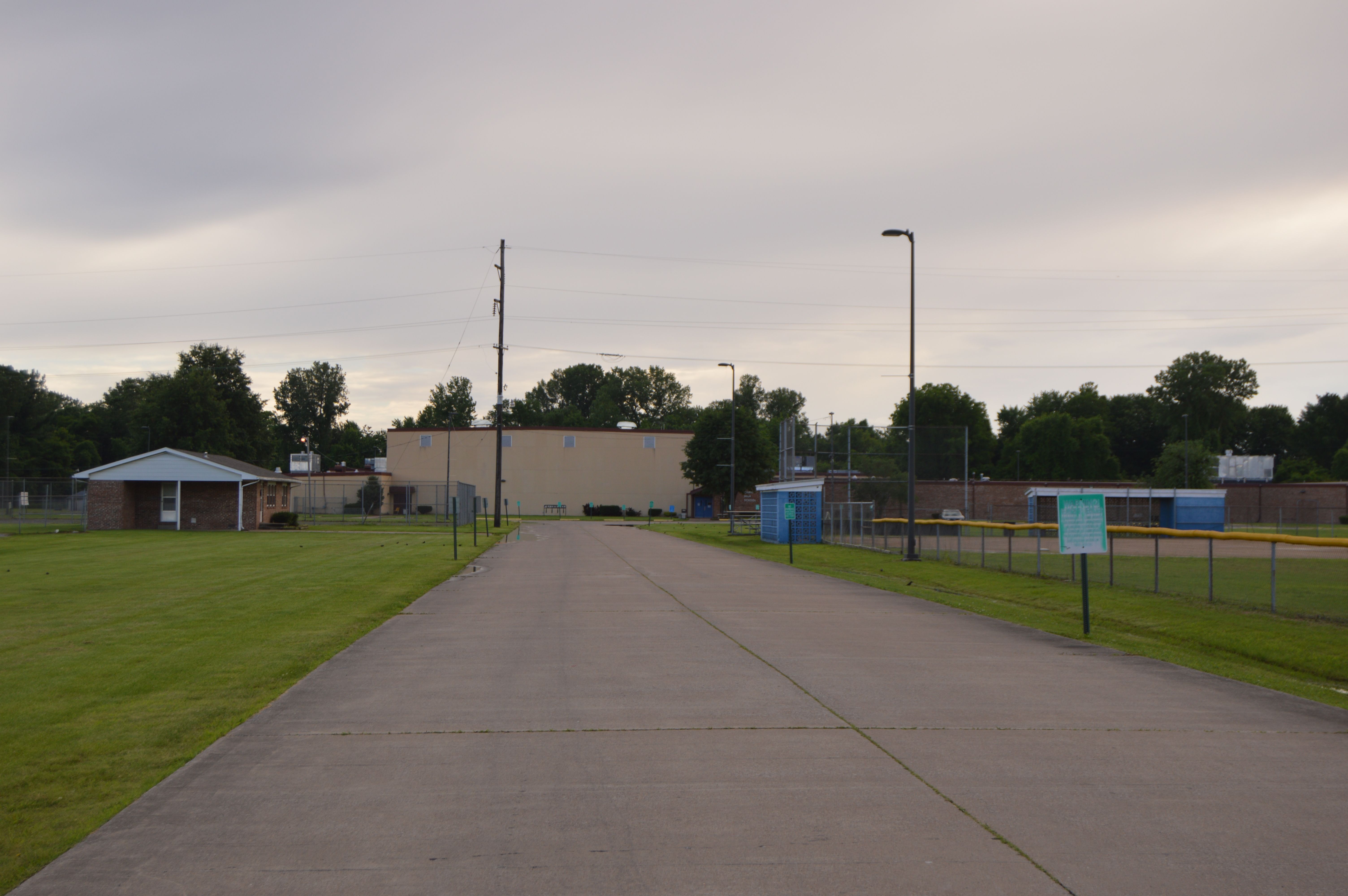 Driveway view of Cairo Junior/Senior High School, located at 4201 Sycamore Street (U.S. Route 51) in Cairo, Illinois, United States.